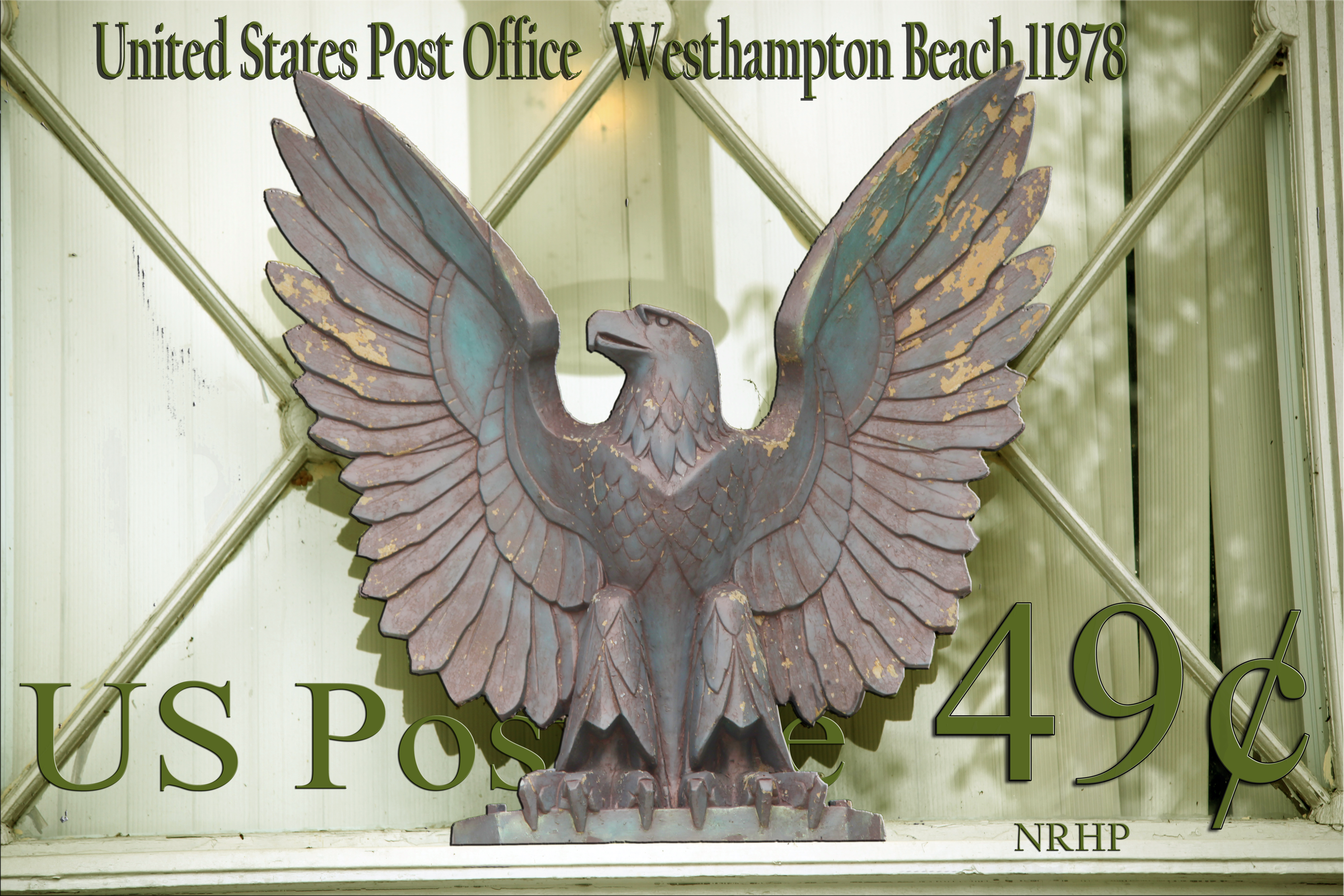 Postage replica, Pop-art, NRHP WPA era designed landmarked structure